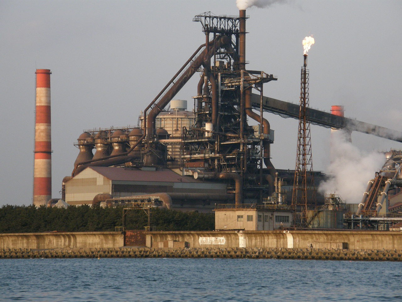 Kobe Steel, Ltd-神戸製鋼所加古川製鉄所